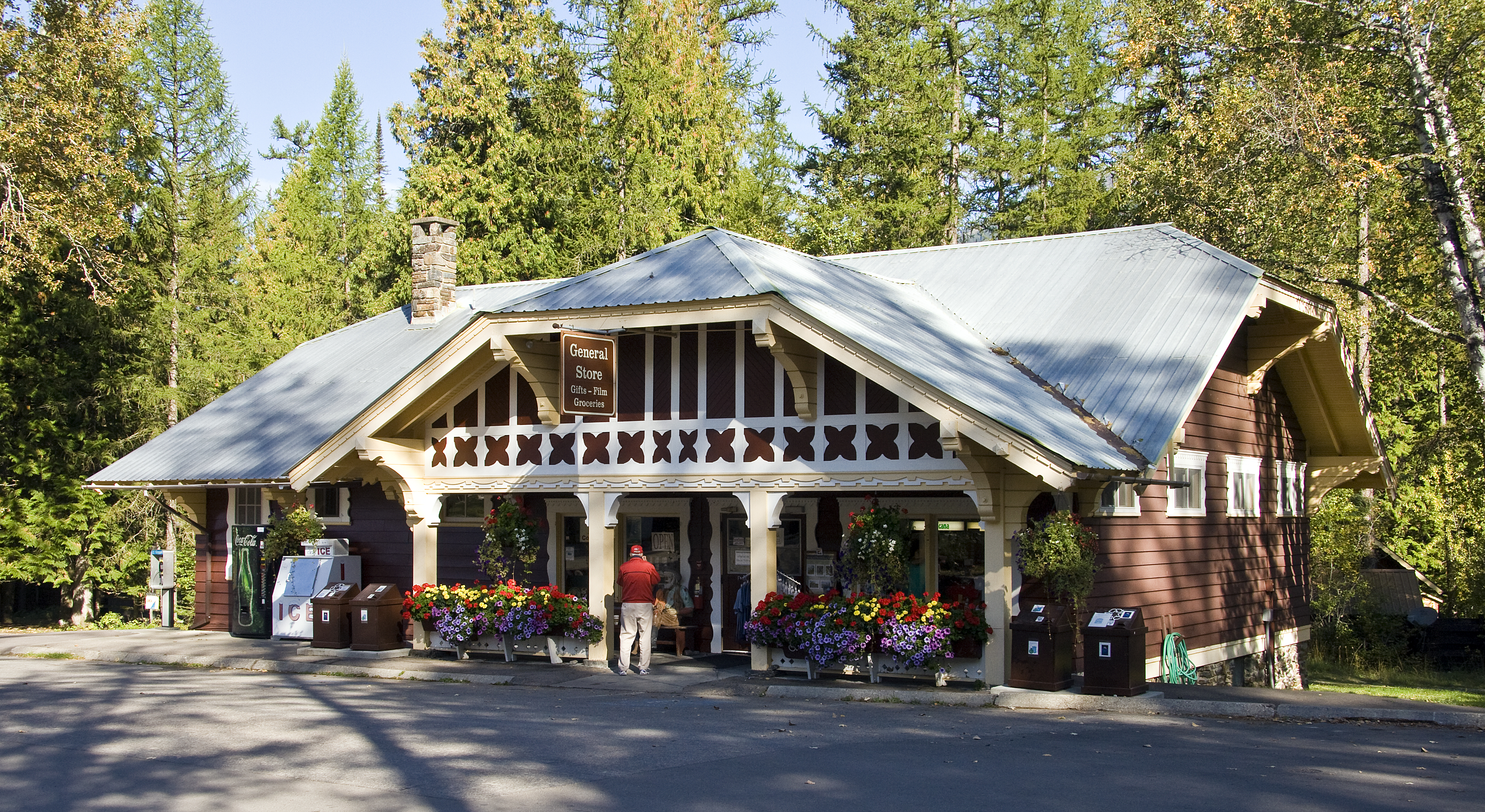 Lake McDonald General Store, Glacier National Park, Montana, USA